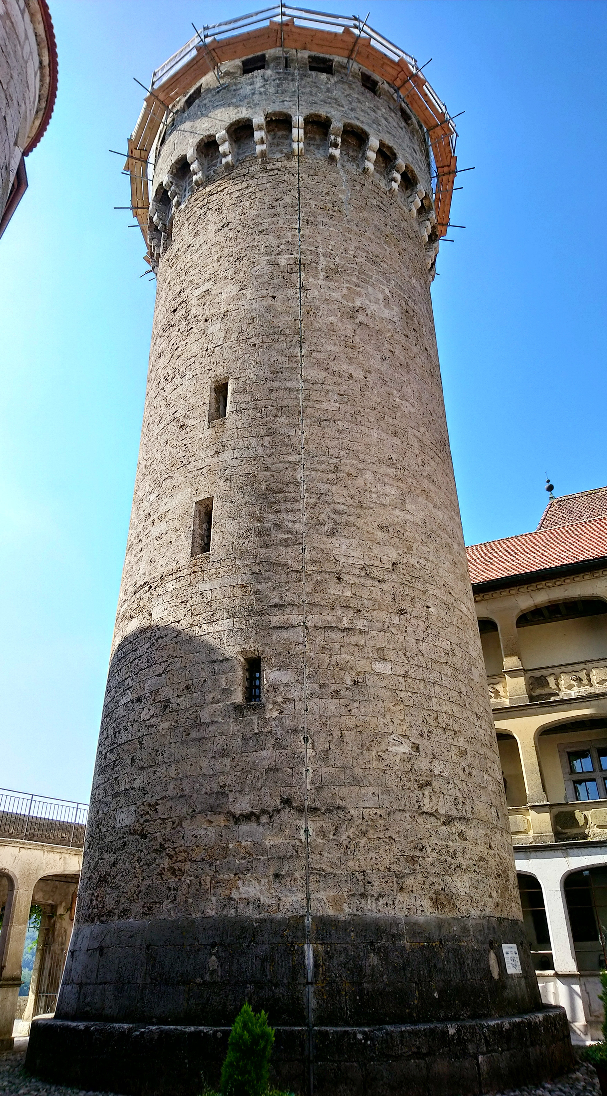 Tower of the Montrottier Castle in August 2019. Lovagny, France.